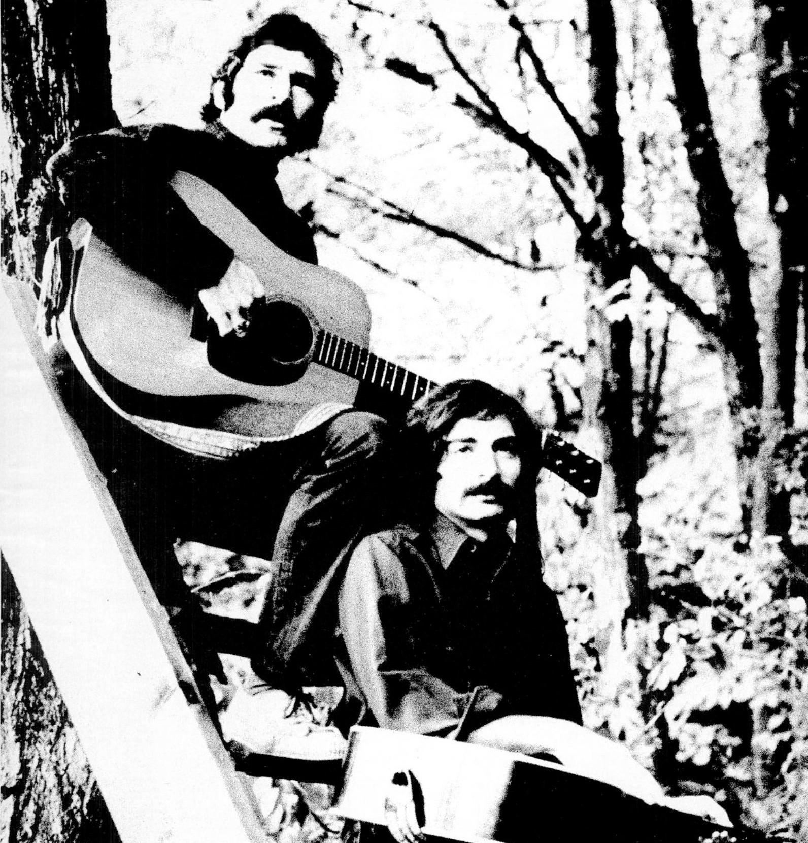 Trade ad for the singers Happy Traum & Artie Traum's first album. To better adapt it to their respective Wikipedia articles, the ad was cropped and edited in a graphics editing program. The original can be viewed at the source below.